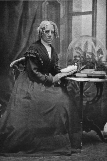 Picture of Maria Mitchell, the astronomer